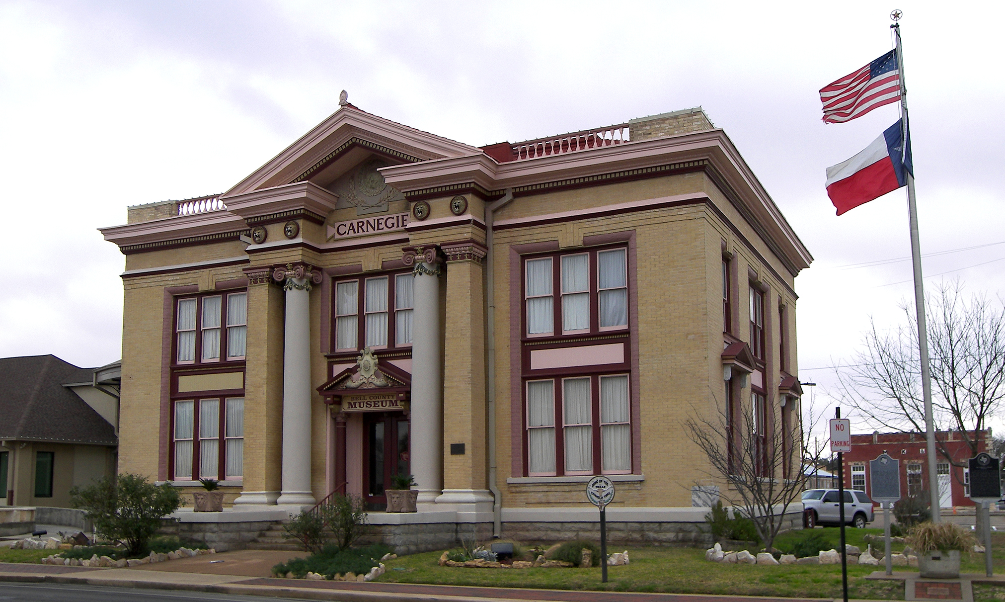 The Carnegie Public Library located in Belton, Texas, United States. Completed in 1904, this brick library building was funded by New York industrialist Andrew Carnegie. The Beaux Arts style building was designated a Recorded Texas Historic Landmark in 1981 and listed on the National Register of Historic Places on March 4, 1985. The building is now part of the Bell County Museum complex.